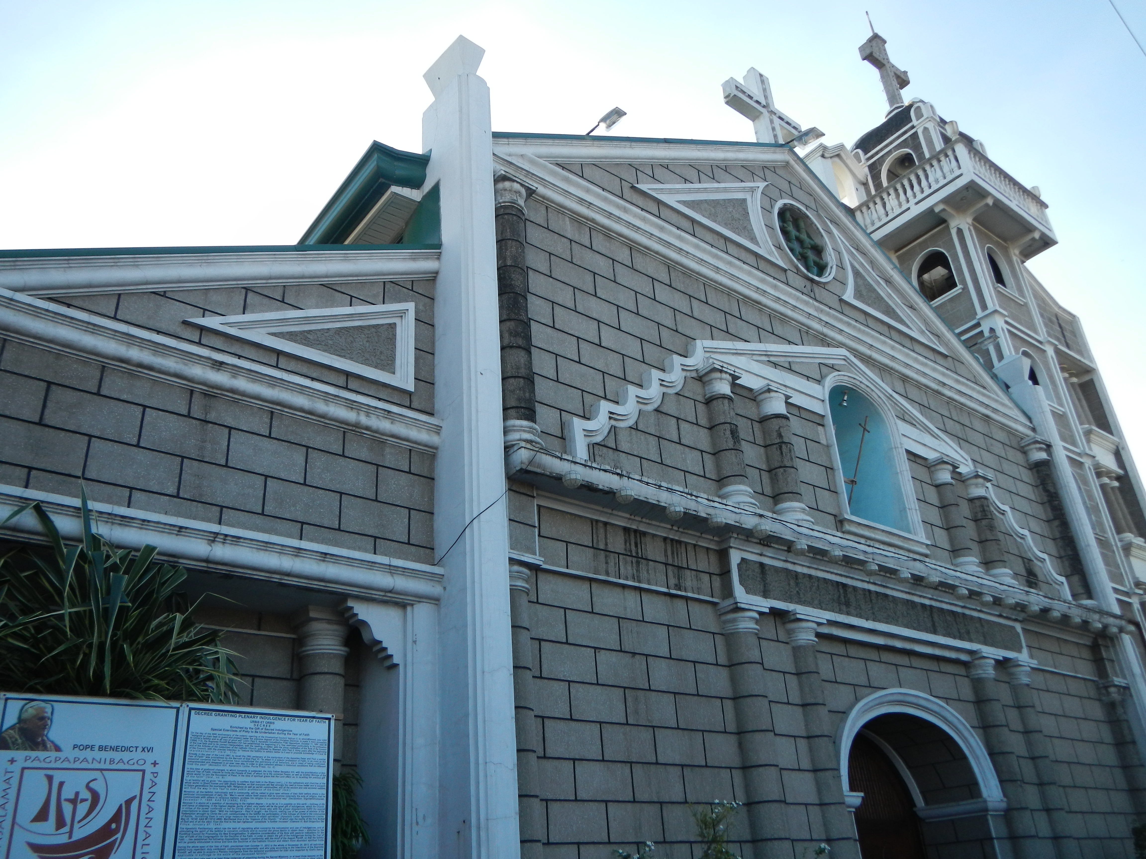 Dambanang Kawayan[1], officially known as Saint John the Baptist Parish Church, is a Roman Catholic parish-church located in Barangay Ligid-Tipas in Taguig City[2], Philippines. This church of Tipas formerly belonged to the Immaculate Conception Parish of Pasig and later transferred to the Shrine of Saint Anne in Sta. Ana, Taguig City. On November 17, 1969, Cardinal Rufino Jiao Santos formally erected the parish under the patronage of St. John the Baptist. The first parish priest appointed was Rev. Fr. Ruben "Ben" J. Villote. The word "Tipas" comes from the word "Tinagpas" or "Tiga-gapas" because the original Tipaseños were farmers. From 1969 to 2003, the Parish of St. John the Baptist[3] was a part of the Archdiocese of Manila[4]. Presently, it belongs to the Vicariate of St. Anne under the Diocese of Pasig[5]. Rev. Fr. Juvi Q. Coronel is the current parish priest.[6]Coordinates: 14°32'28"N 121°4'49"E Date of Erection: November 15, 1969 Vicariate: Vicariate of Saint Anne Titular: St. John the Baptist Feast: June 24 Pastors • 1969-1976 Fr. Ruben "Ben" Villote (Diocese of Cubao) [7] The altar, wall sidings, ceiling and benches that are made of pure, native bamboo. This symbol of Filipino design and artistry stood in history as the site where over 500 men were gathered and brutalized during the tragic “sona” of December 1, 1944 conducted by the Japanese forces. The men were later imprisoned in the dungeons of Fort Santiago in Intramuros -never to be seen again, alive or dead. after the functionality of Seoul, the excellent systems of Singapore, the innovation of Vancouver and the Visionary outlook of Paris. It is both a quiet residential paradise with areas designed for international educational tourism and is also the heart of Asian Commerce.[8]